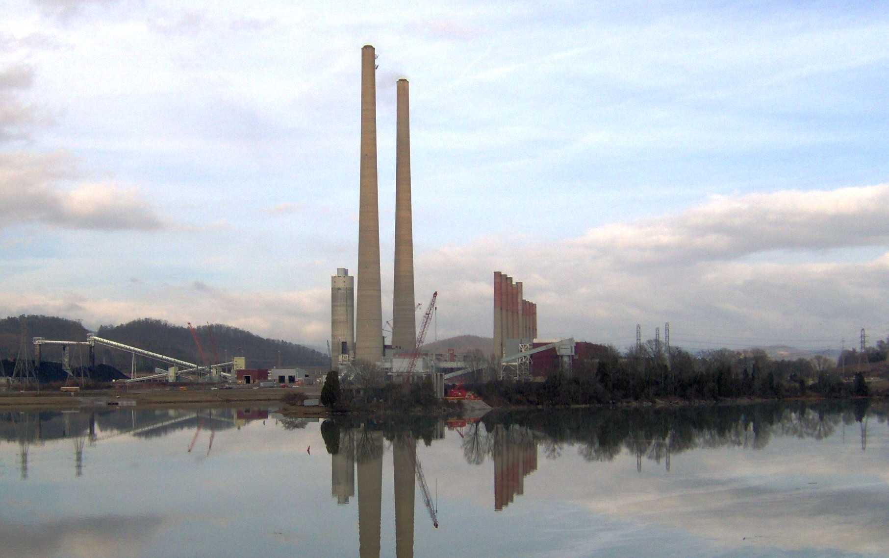 The Kingston Fossil Plant, built and operated by the Tennessee Valley Authority, viewed from Interstate 40 near Kingston, Tennessee, in the southeastern United States.